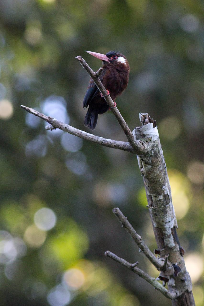 A White-eared Jacamar near Marañón River, Peru.